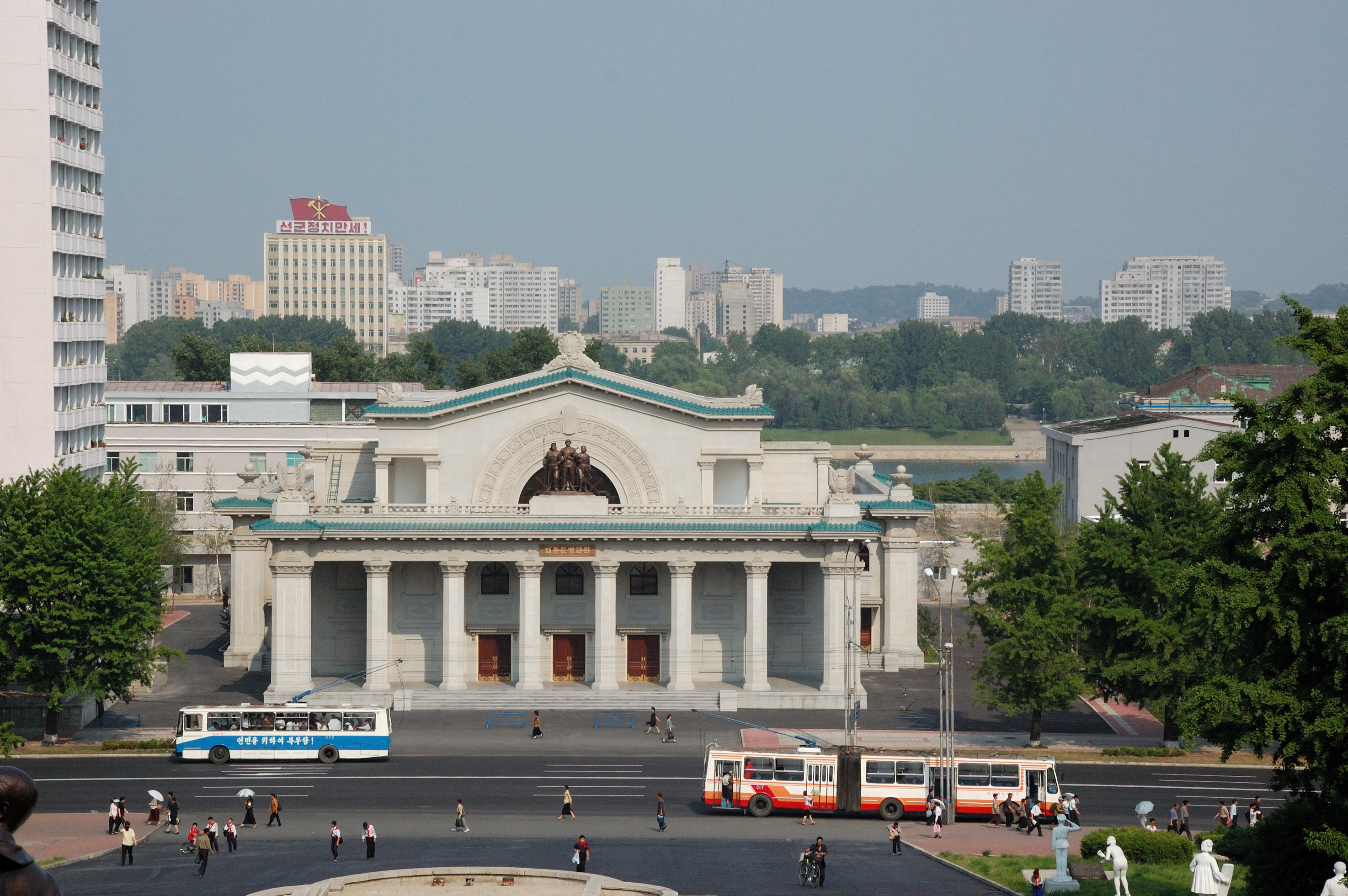 Taedongmun Cinema in Pyongyang, North Korea, with two trolley buses passing by.